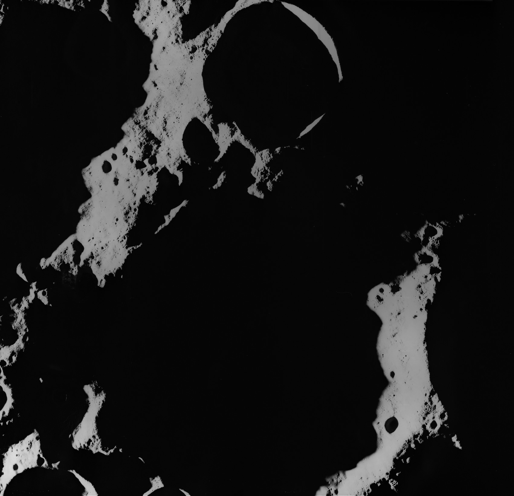 Zhukovskiy crater (bottom), at the sunset terminator, on the far side of the moon. One of the first images taken by the Apollo 16 mapping camera.